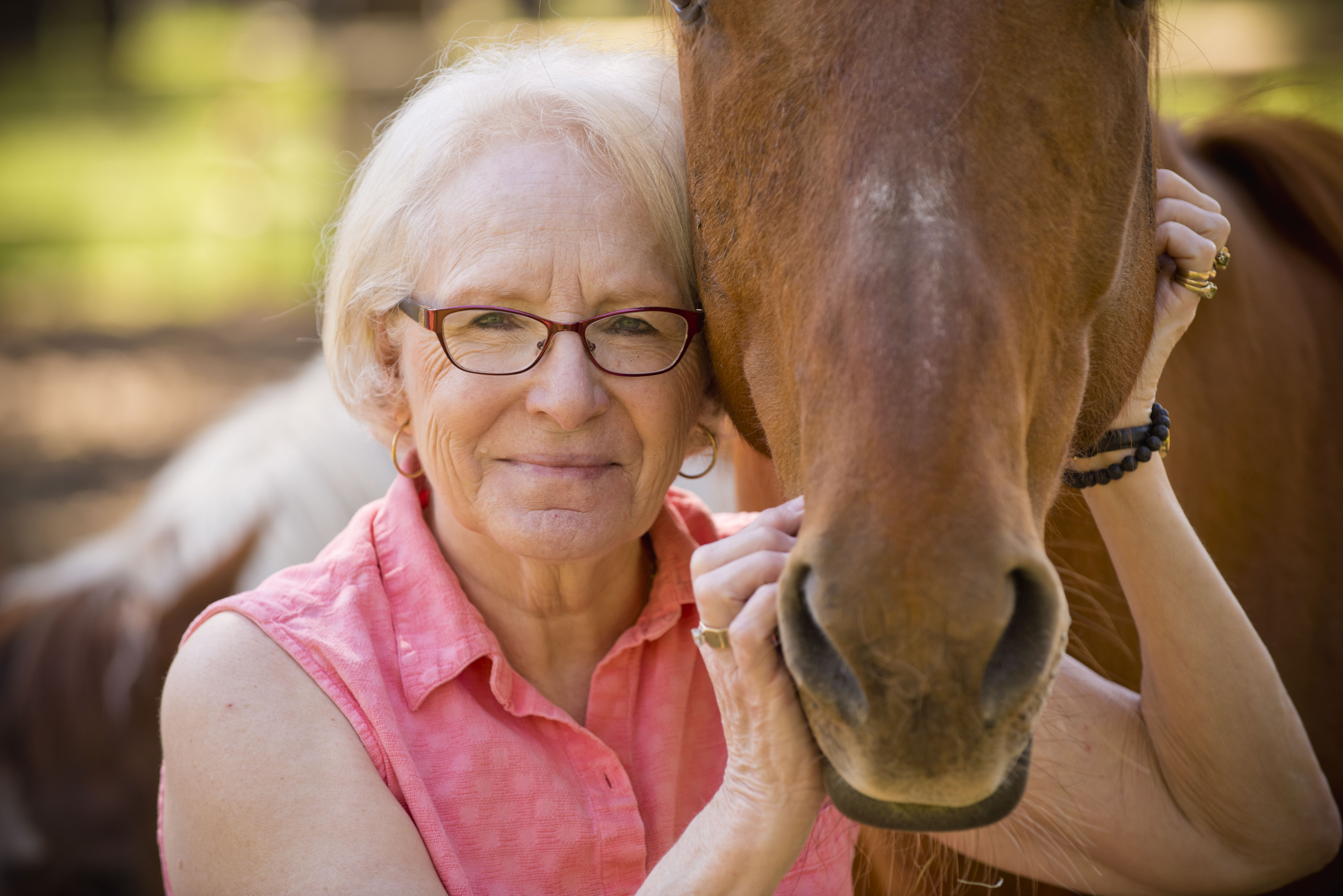 Kathy Good, landowner near Hamilton, Mont., was evacuated during the Roaring Lion fire in 2016. Her horses and house were not harmed by the fire. June 2017. Ravalli County, Montana.